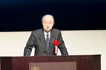 Yasushi Akashi, Chairman of the International House of Japan, Inc., addressed the Commemorative Ceremony of the 60th Anniversary of Japan's Accession to the United Nations at the United Nations University in Shibuya Ward, Tōkyō Metropolis on December 19, 2016.